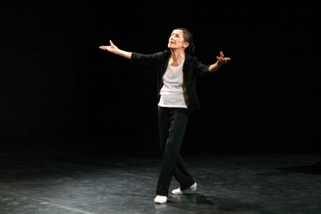 Ursula Cain in the autobiography Dance Theater "Zeit – tanzen seit 1927" by Heike Hennig (Poster "Dancing with Time")